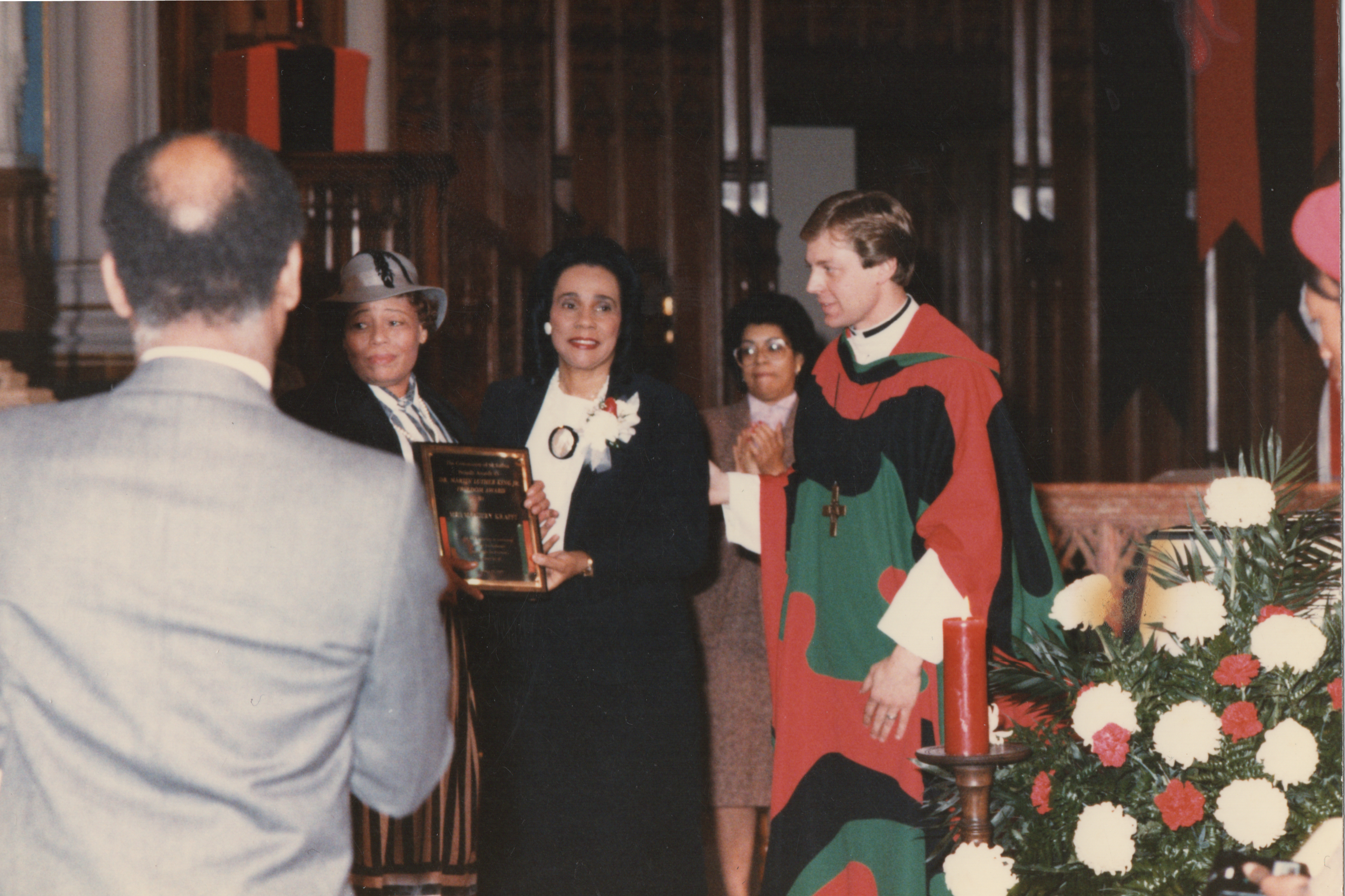 Photograph: Coretta Scott King receiving award from Fr. Pfleger and St. Sabina